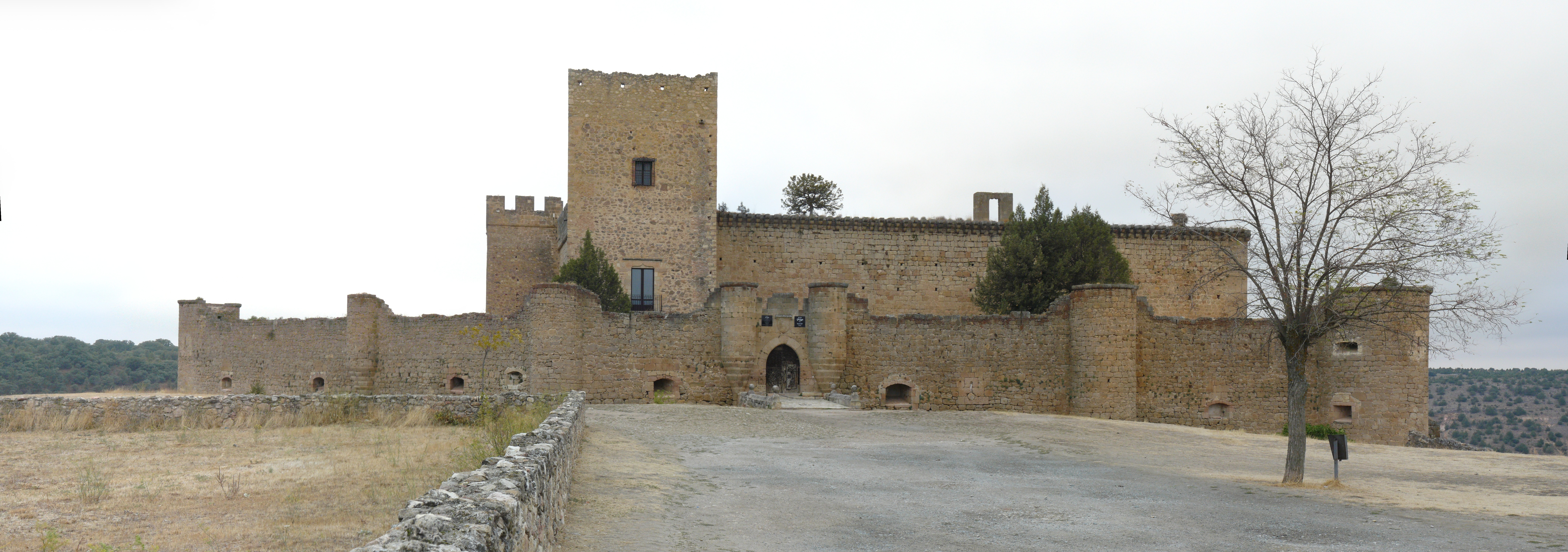 View of the castle at Pedraza, Segovia (Spain)